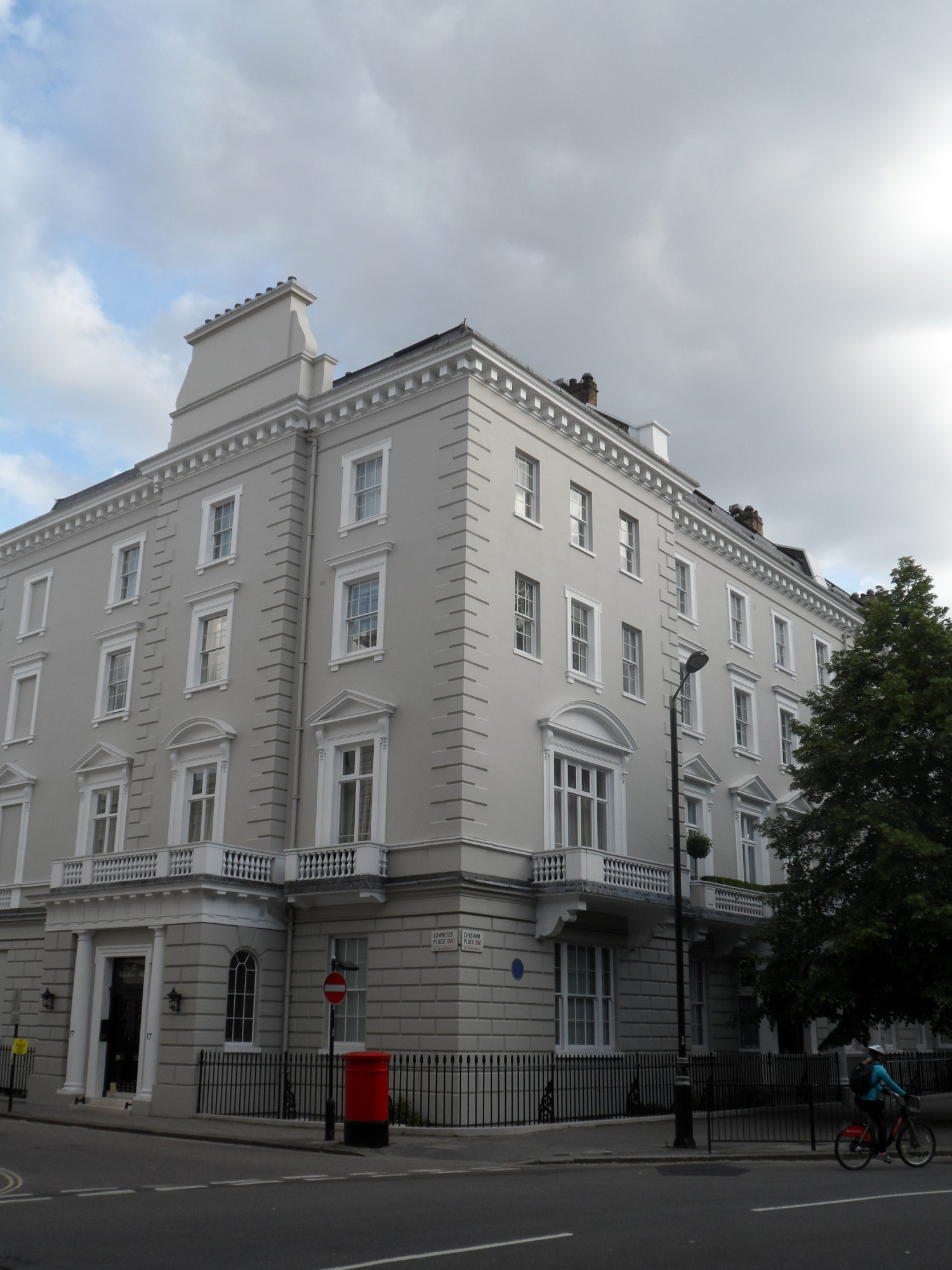 LORD JOHN RUSSELL 1st Earl Russell 1792-1878 Twice Prime Minister Lived Here